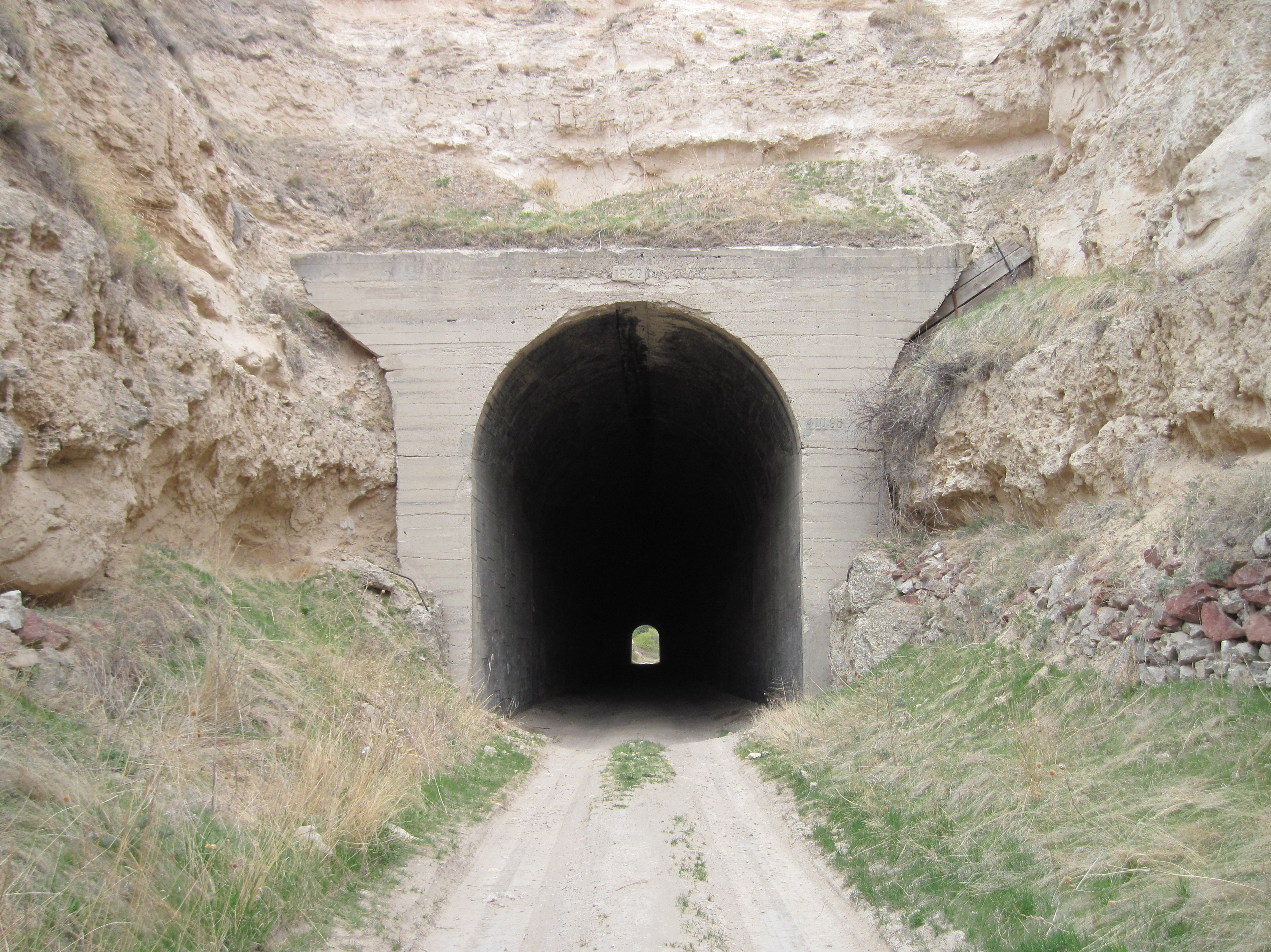 Close-range shot of the south end of the Belmont Tunnel near the ghost town of Belmont, Nebraska.